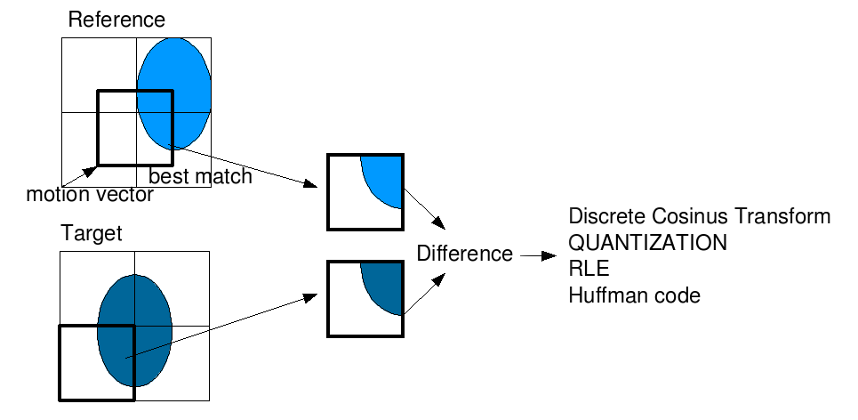 Example of interframe prediction process